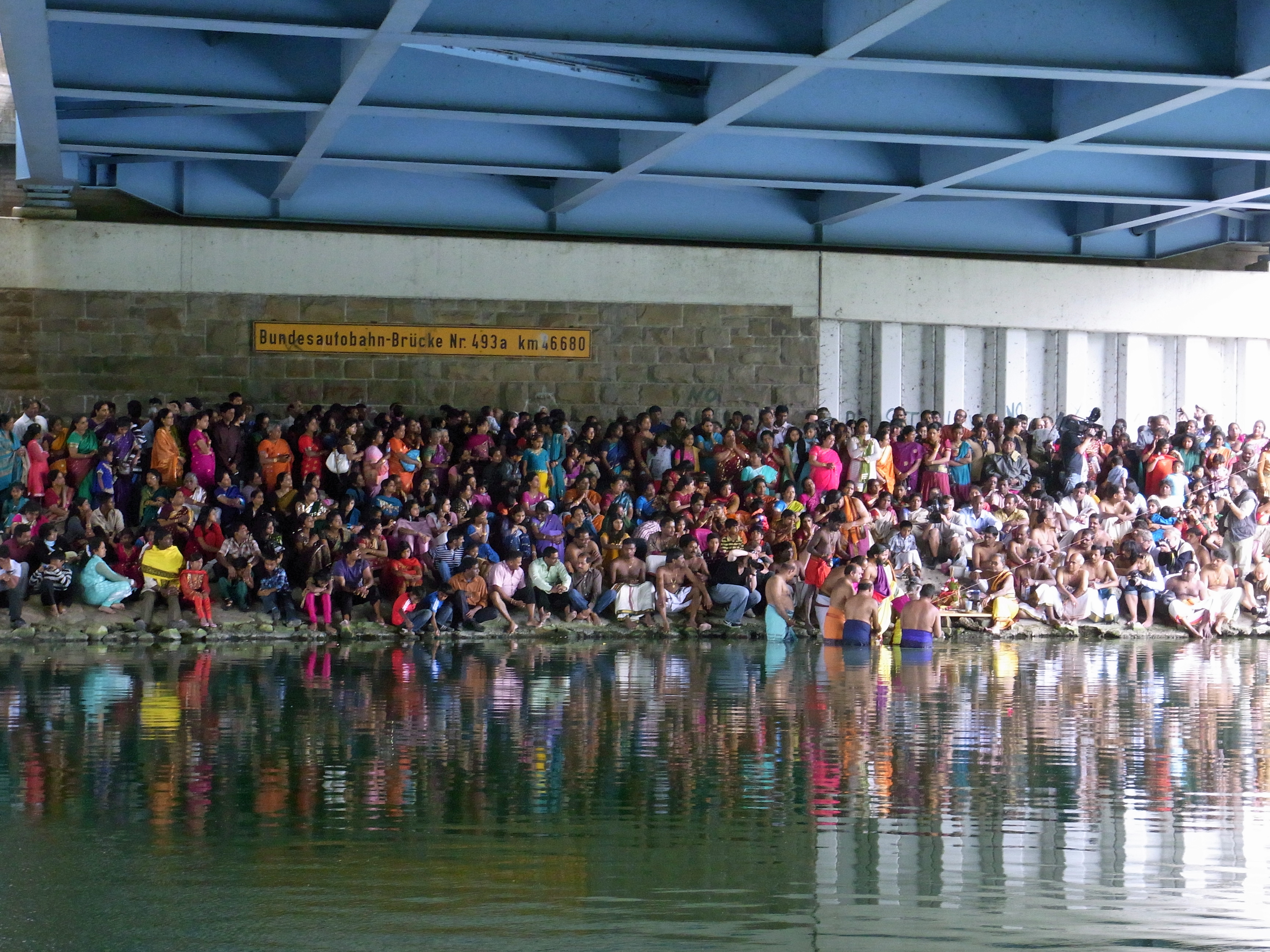 Sri-Kamadchi-Ampal-Temple in Hamm, Germany: Templefestival 2011 - Procession to the Datteln-Hamm Canal and religious ceremony under the bridge of the Bundesautobahn 2